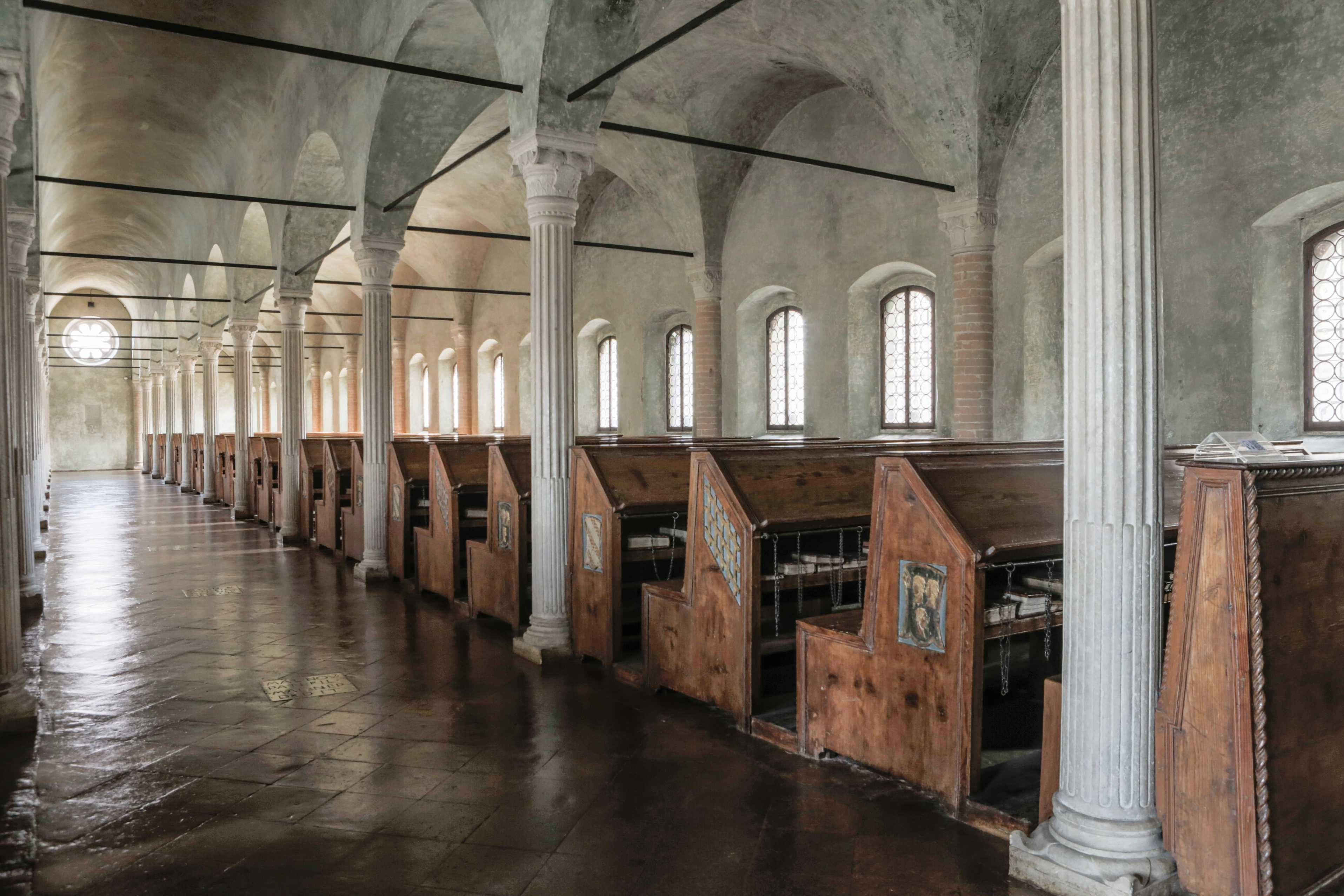 Sala (hall) del Nuti - Malatestiana Library - Cesena (FC) - Emilia-Romagna This is a photo of a monument which is part of cultural heritage of Italy.